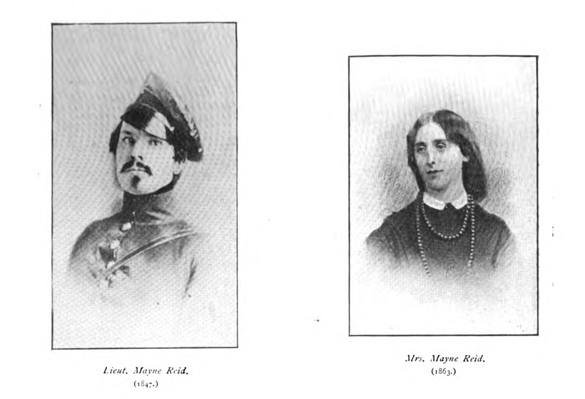 Mr. and Mrs. Mayne Reid. Published in Published in Reid, Elizabeth Hyde. Captain Mayne Reid: His Life And Adventures. London: Greening, 1900.